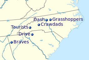 Carolina League team locations for the 2019 season.